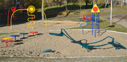 Frédéric Iriarte SPIREL 1, FITTJA RECREATIONAL SCULPTURES AND URBAN FURNITURE for youngers and adults Project [ART & TECHNOLOGY]